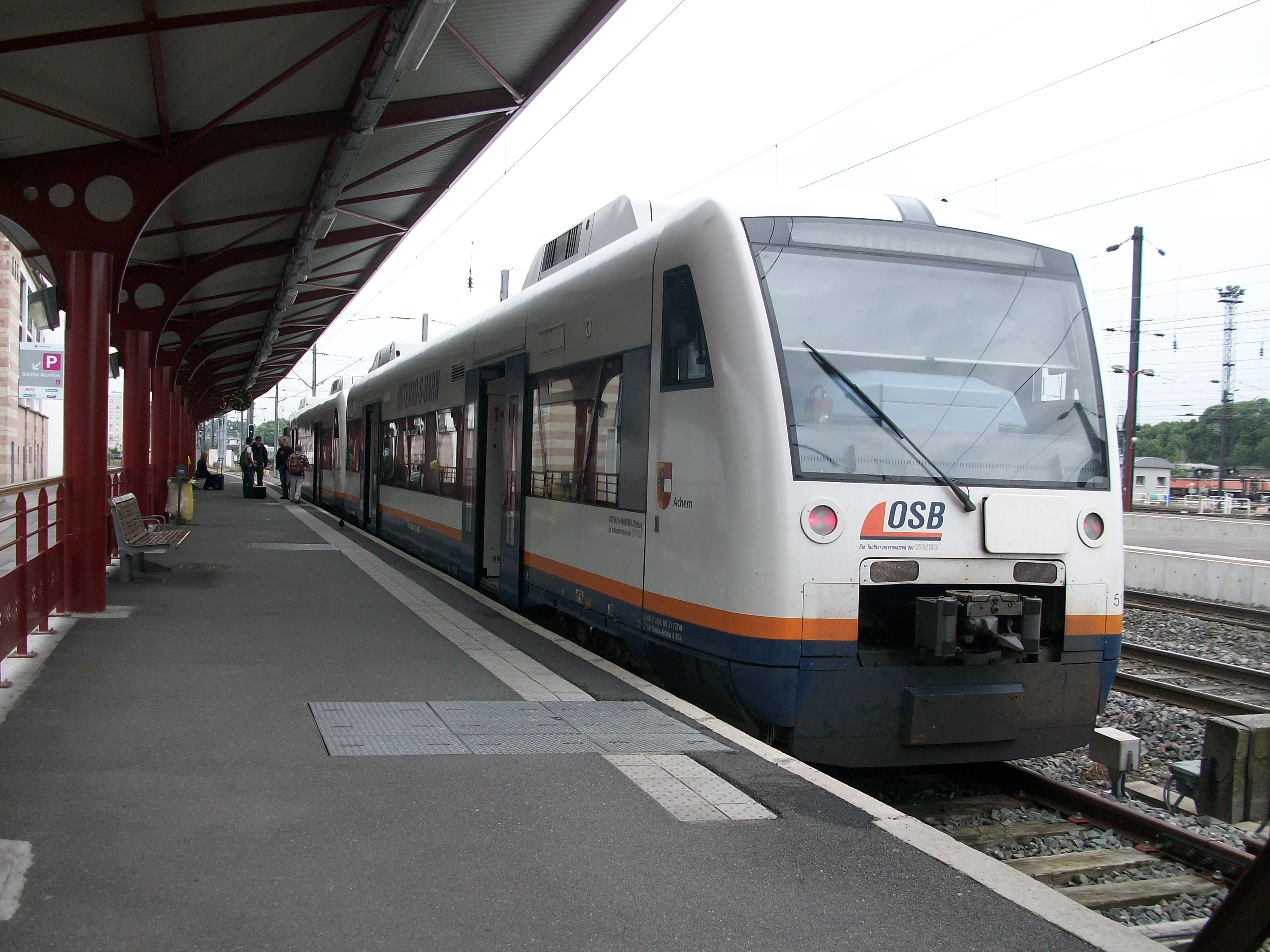 RegioShuttle in Strasbourg railway station